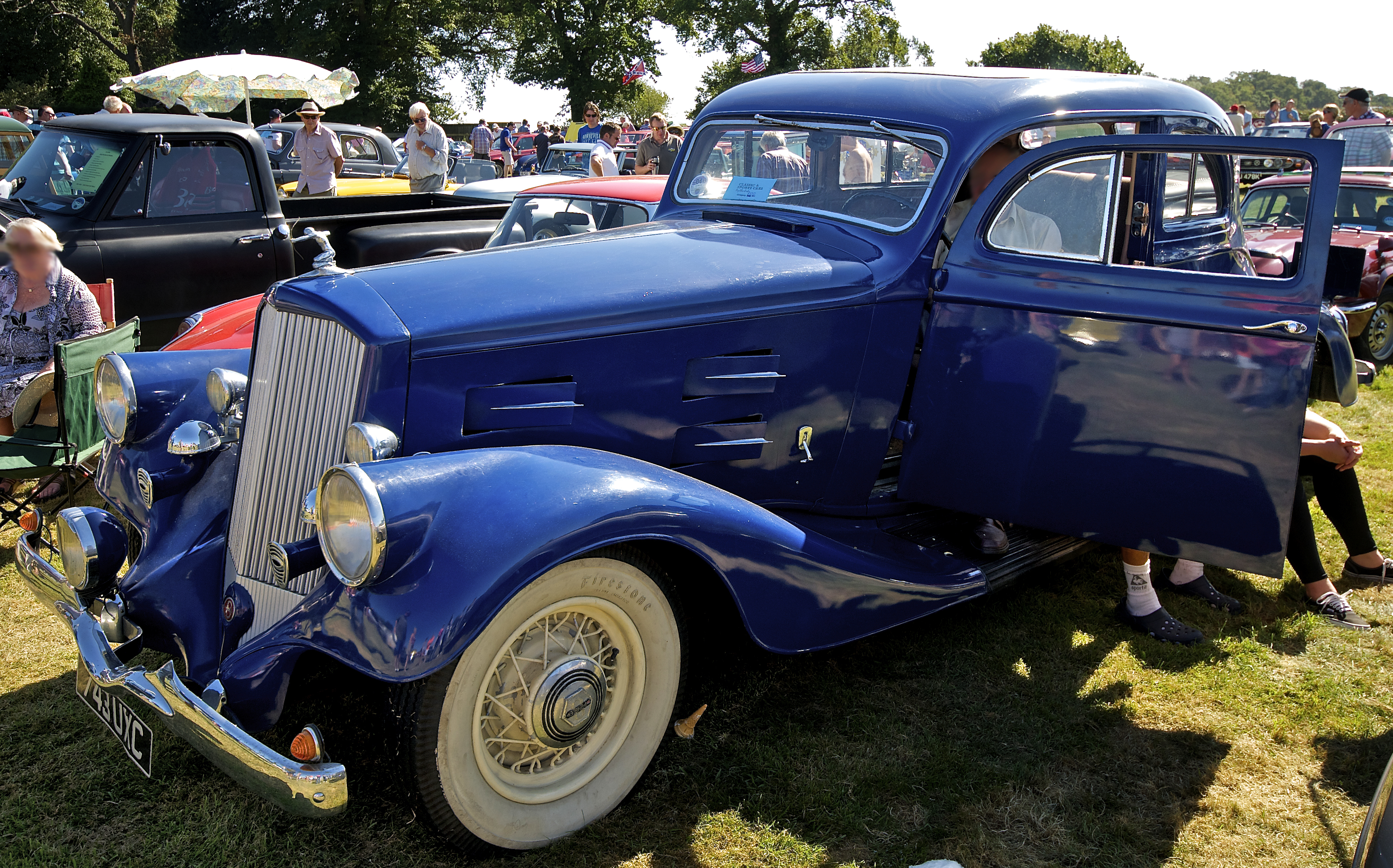 1934 Pierce-Arrow 836A Club Brougham at the Classic Cars By The Lake show, UK 2012. Equipped with a 6-litre engine (366ci) with 135hp, it sits on a 136 in (3,454 mm) wheelbase. The archer ornament on the radiator was not standard fitment for the "budget" 836A model.